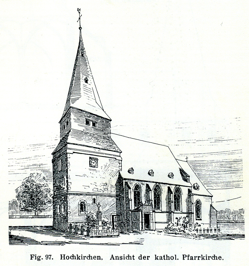 Medieval church St. Viktor, Hochkirchen, a quarter of Nörvenich, Germany